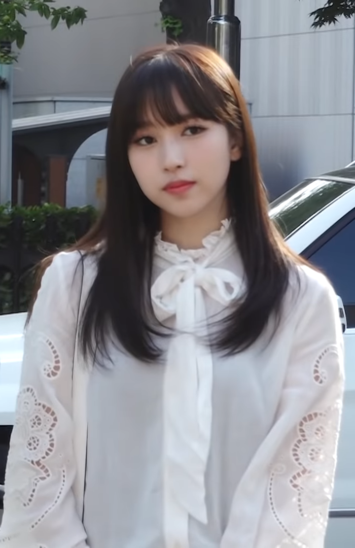 Mina at the KBS Music Bank in 2019.